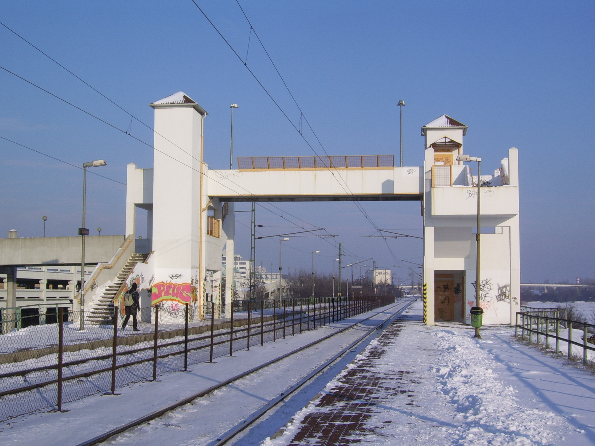 Budatétény railway station, Budapest, Hungary